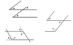 Angles with parallel lines